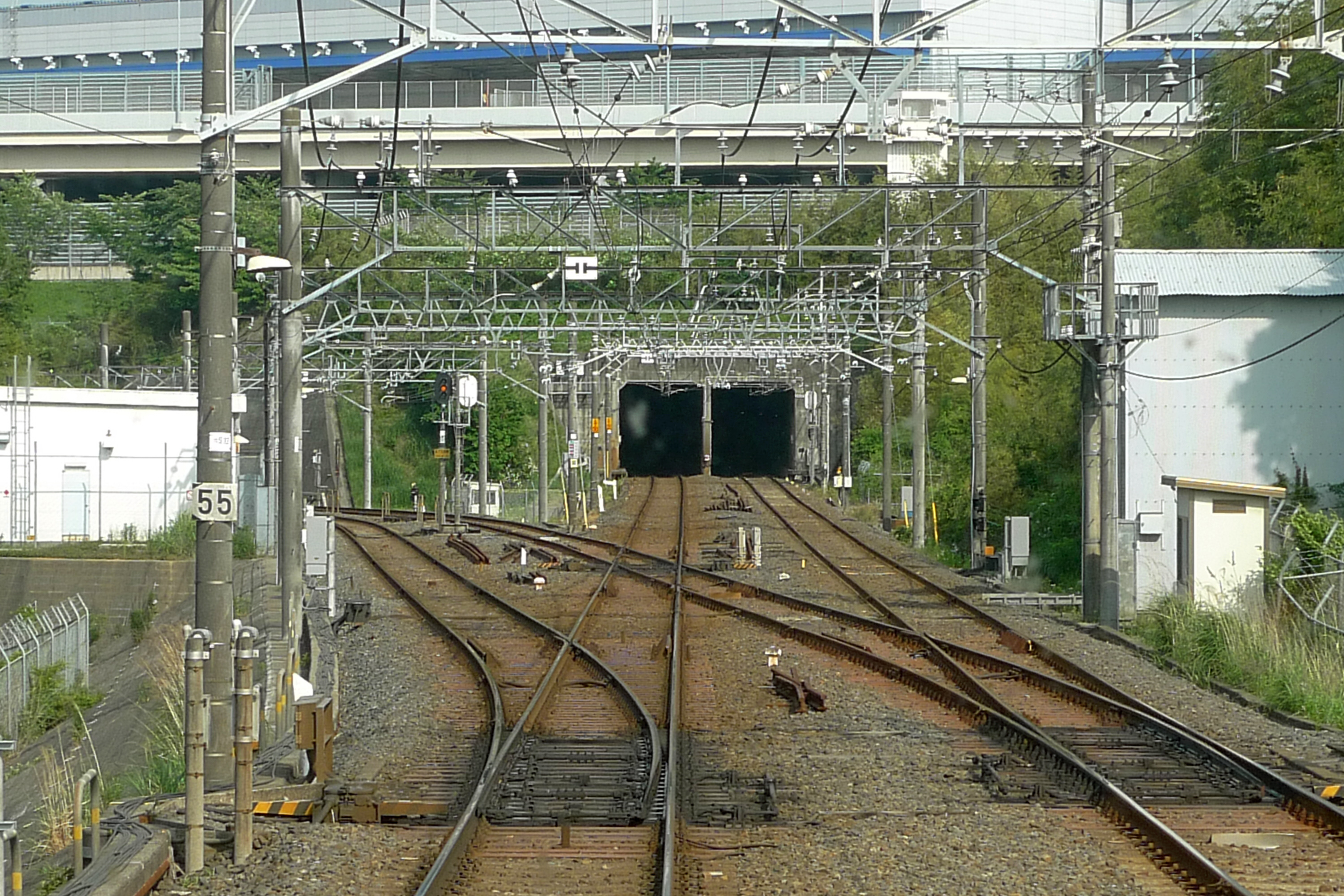 Komaino Junction on the Keisei Main Line